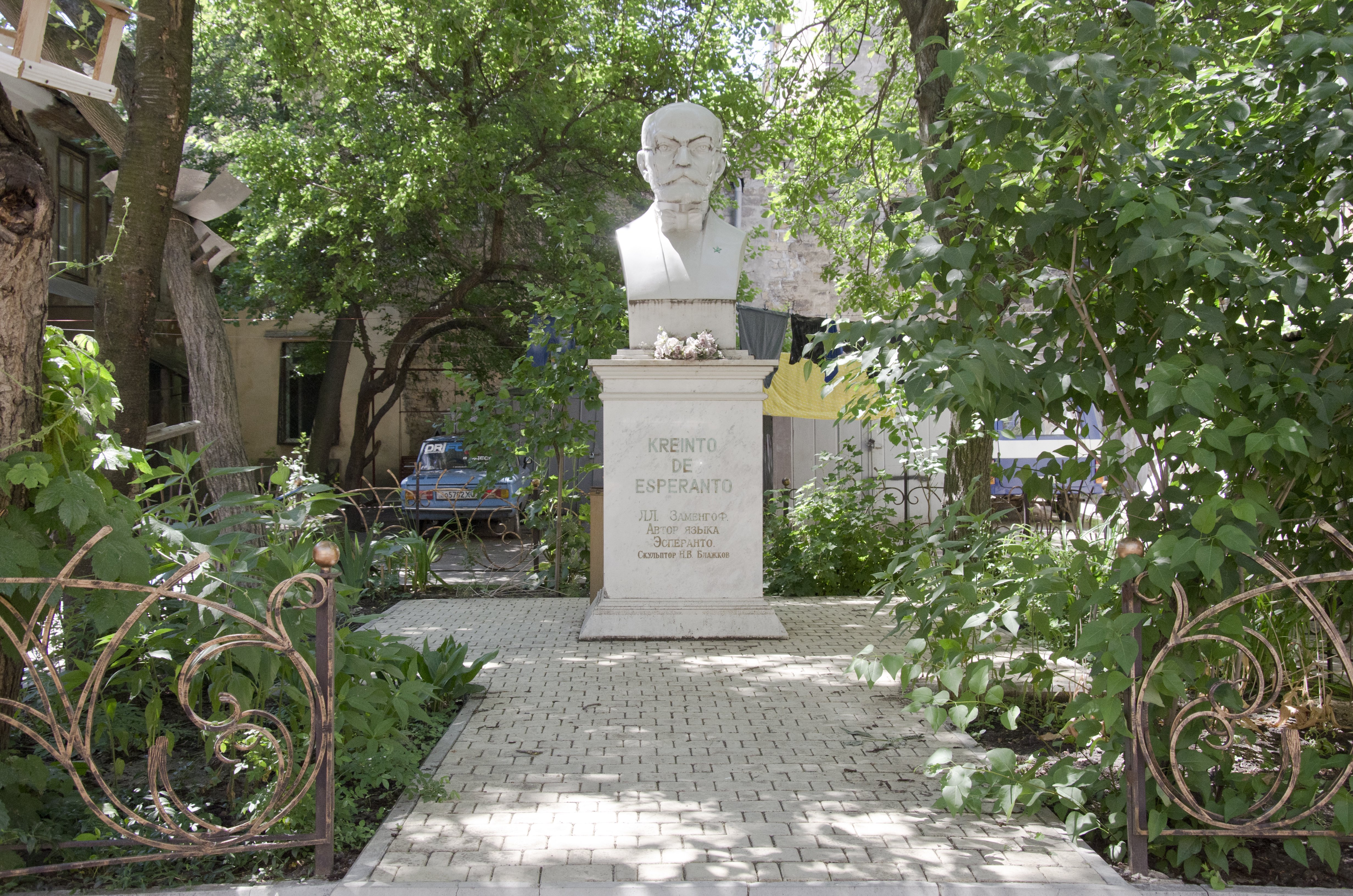 Bust of Zamenhof in Odessa